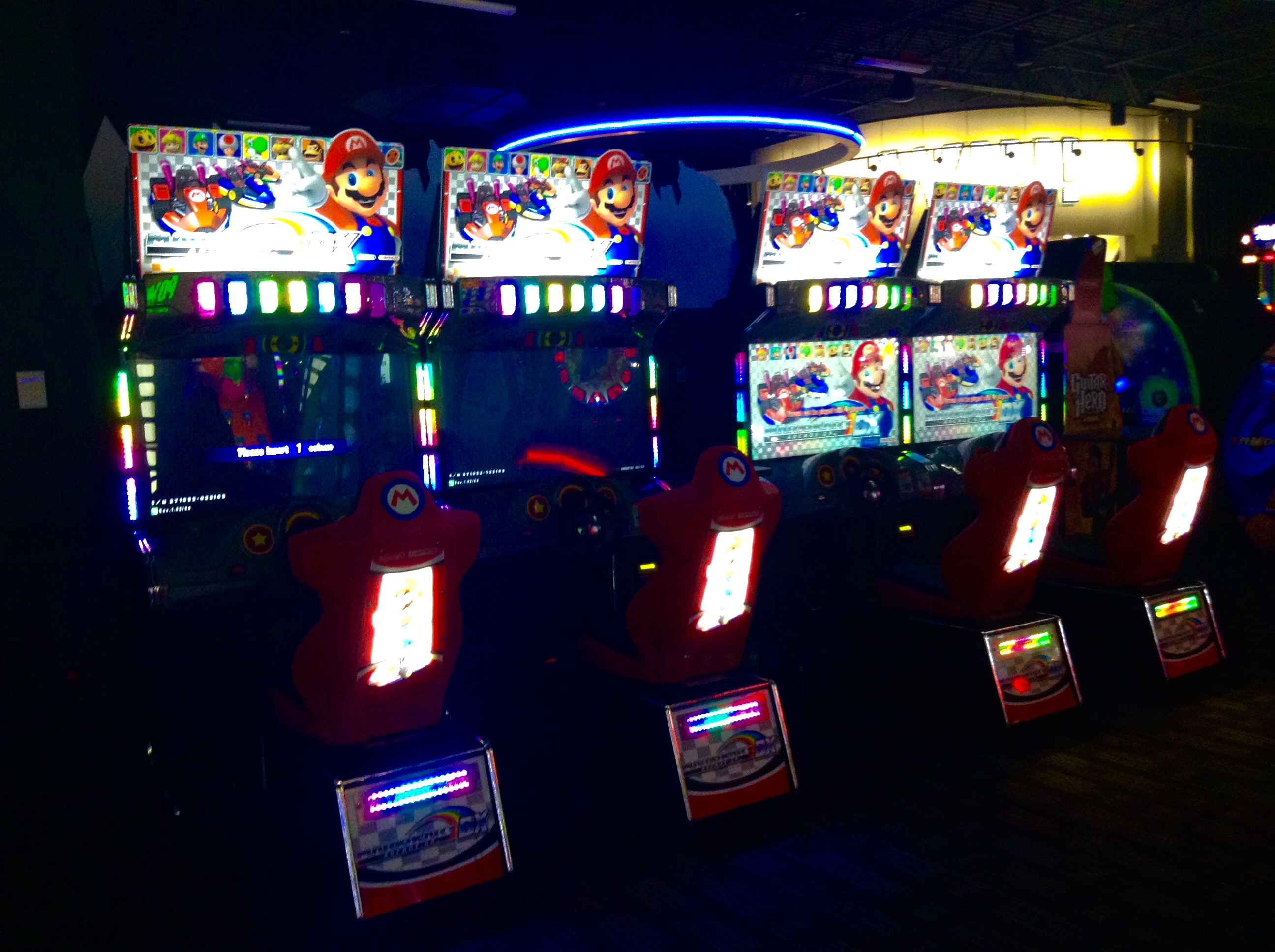 Mario Brothers games at Dave & Buster's